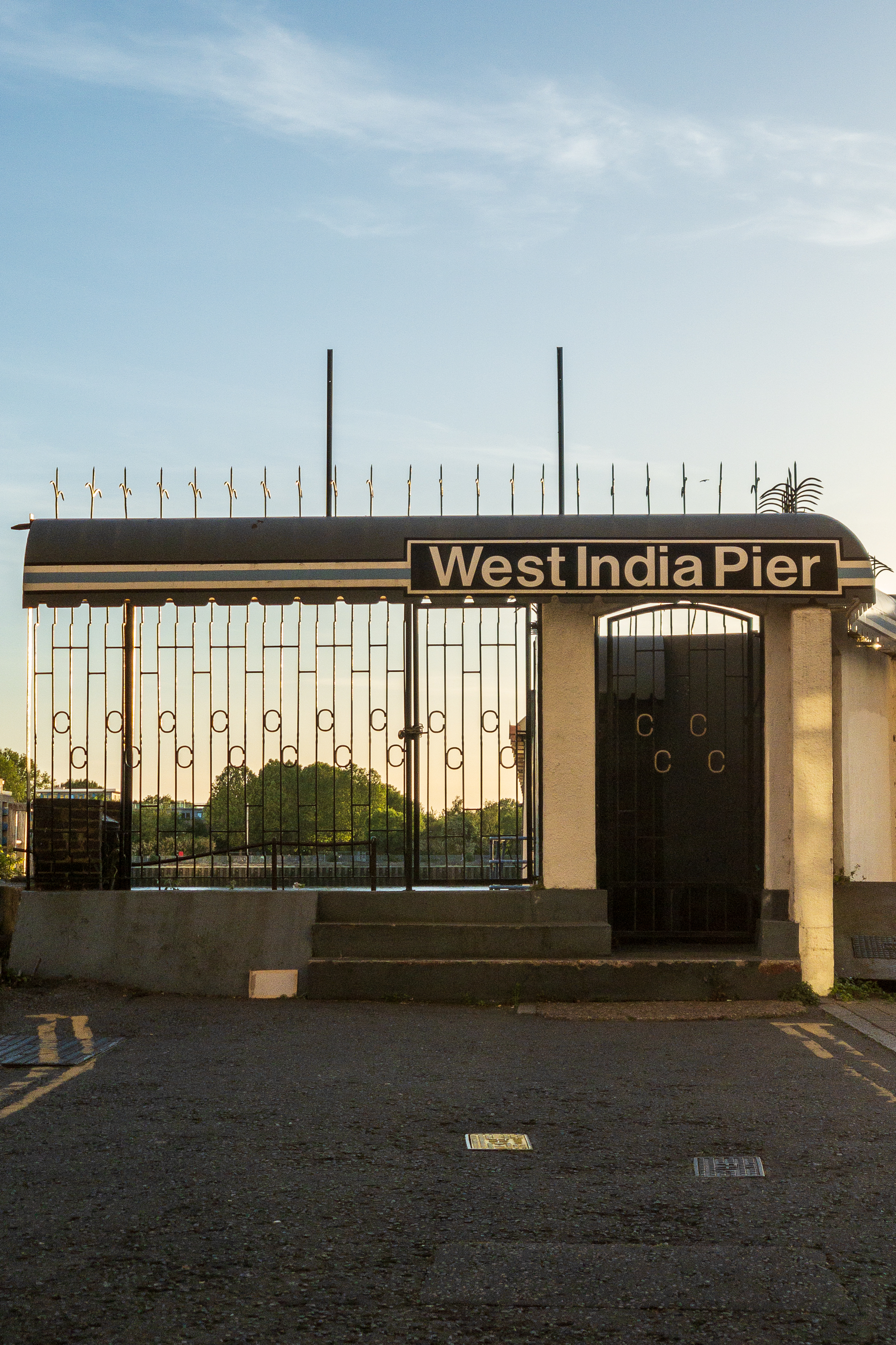 The now disused West India Pier closed in 1993. It can be found at the end of Cuba Street in the Isle of Dogs.